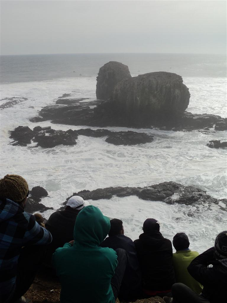 2011 Quiksilver Ceremonial Punta de Lobos Big Wave Invitational